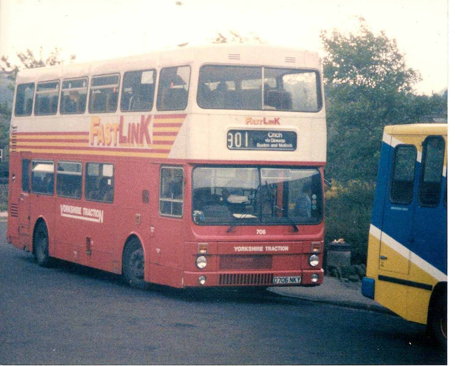 After the 901 had been operated by WYPTE Metrobus and Yorkshire Rider, it later passed to Yorkshire Traction. The connection with the Chesterfield Transport 403 service can by noted from the rear of the Spire Sprinter. This was also the first handy toilet stop after crossing the border as can been seen by the alighting Yorkshire folk + driver!